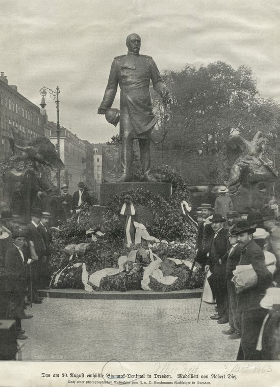 The statue of Otto von Bismarck in Dresden, sculpted by Robert Diez and unveiled on August 30, 1930. The statue was located at the Johannesring, between the Neues Rathaus and the Dippoldiswalder Platz.postcard from 1935, map from 1917 Today, this street is called Dr.-Külz-Ring.